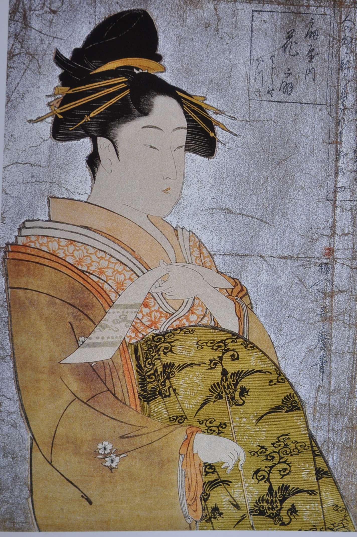 Oiran Hanaogi, by Utamaro (ca. 1794). Woodcut print has a mica background.